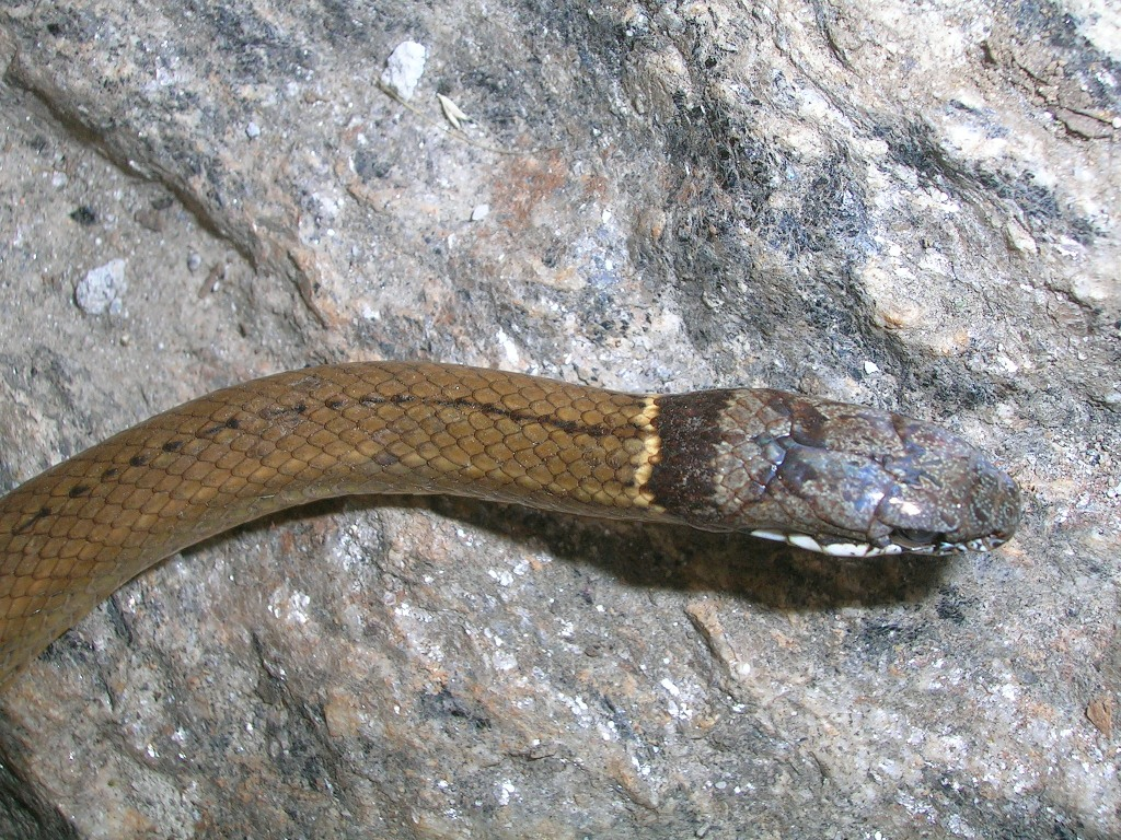 Sibynophis collaris head, Munsiyari, Uttarakhand